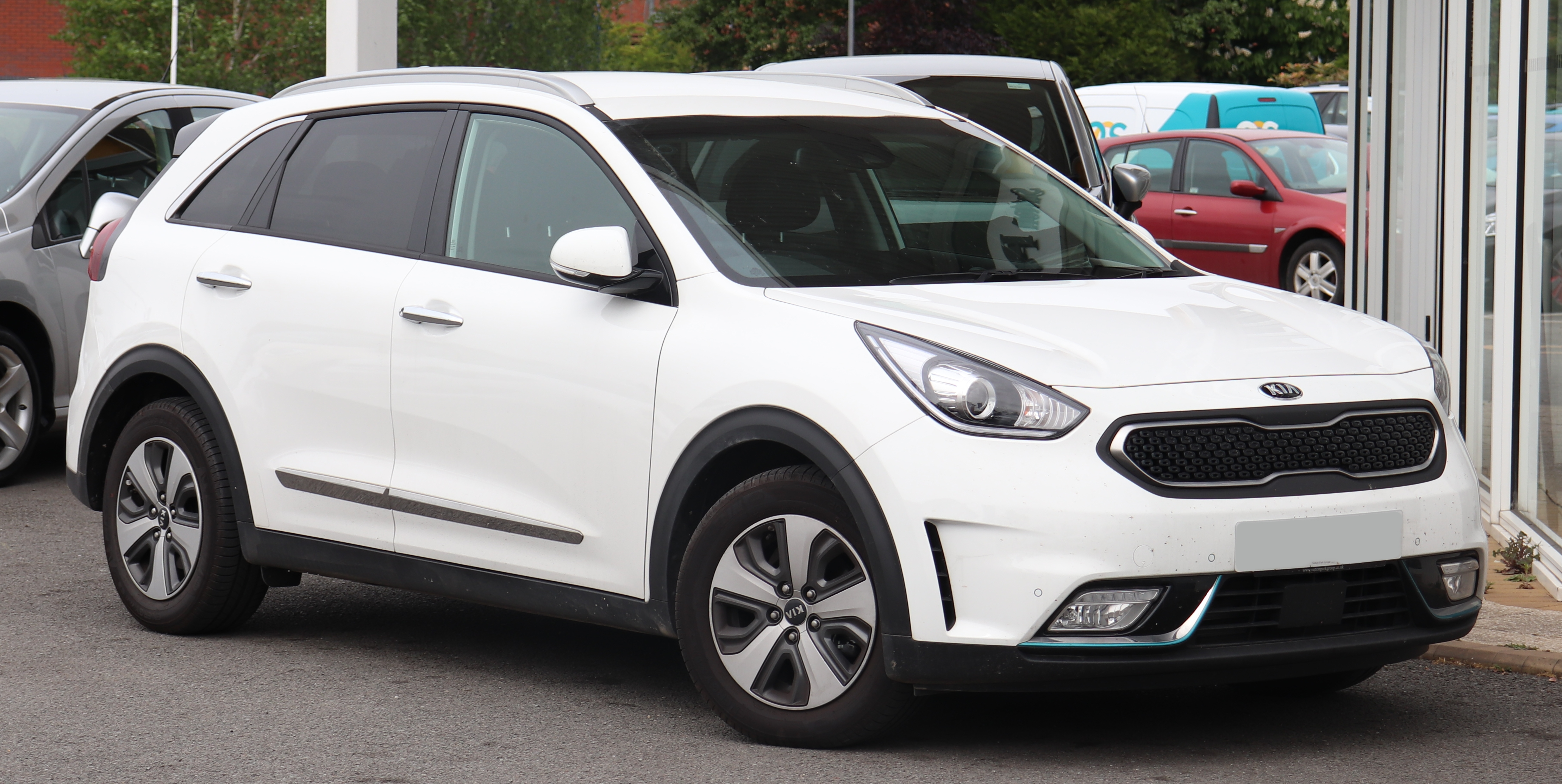 2018 Kia Niro 3 PHEV S-A 1.6 Taken in Leamington Spa